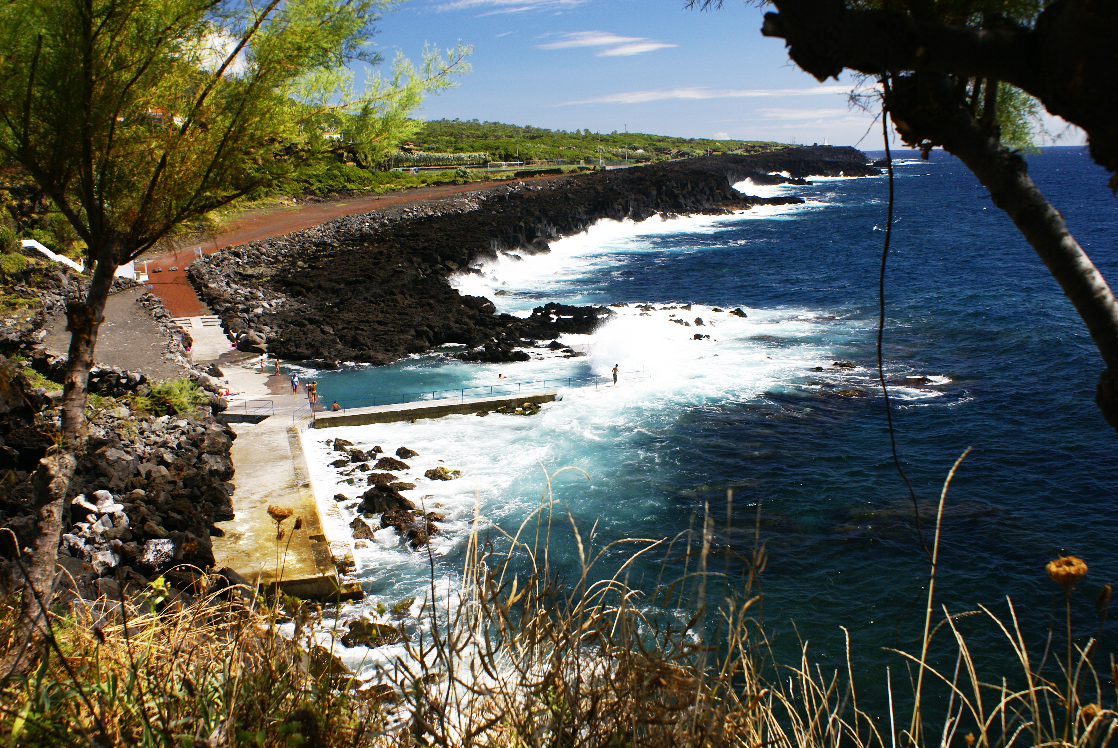 São Mateus, Madalena, ilha do Pico, Açores, Portugal